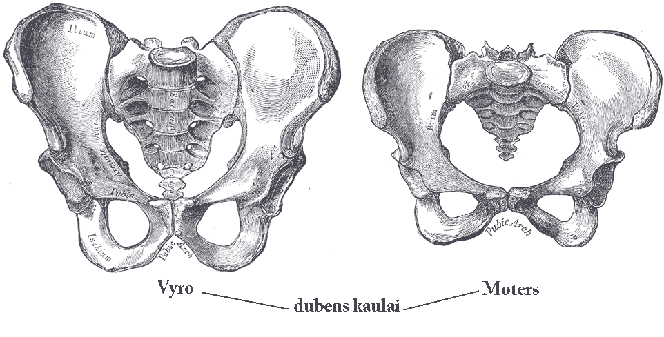 Male vs female pelvis